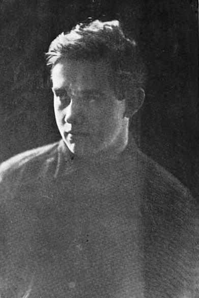 Avard Tennyson Fairbanks, a prolific 20th century American sculptor.